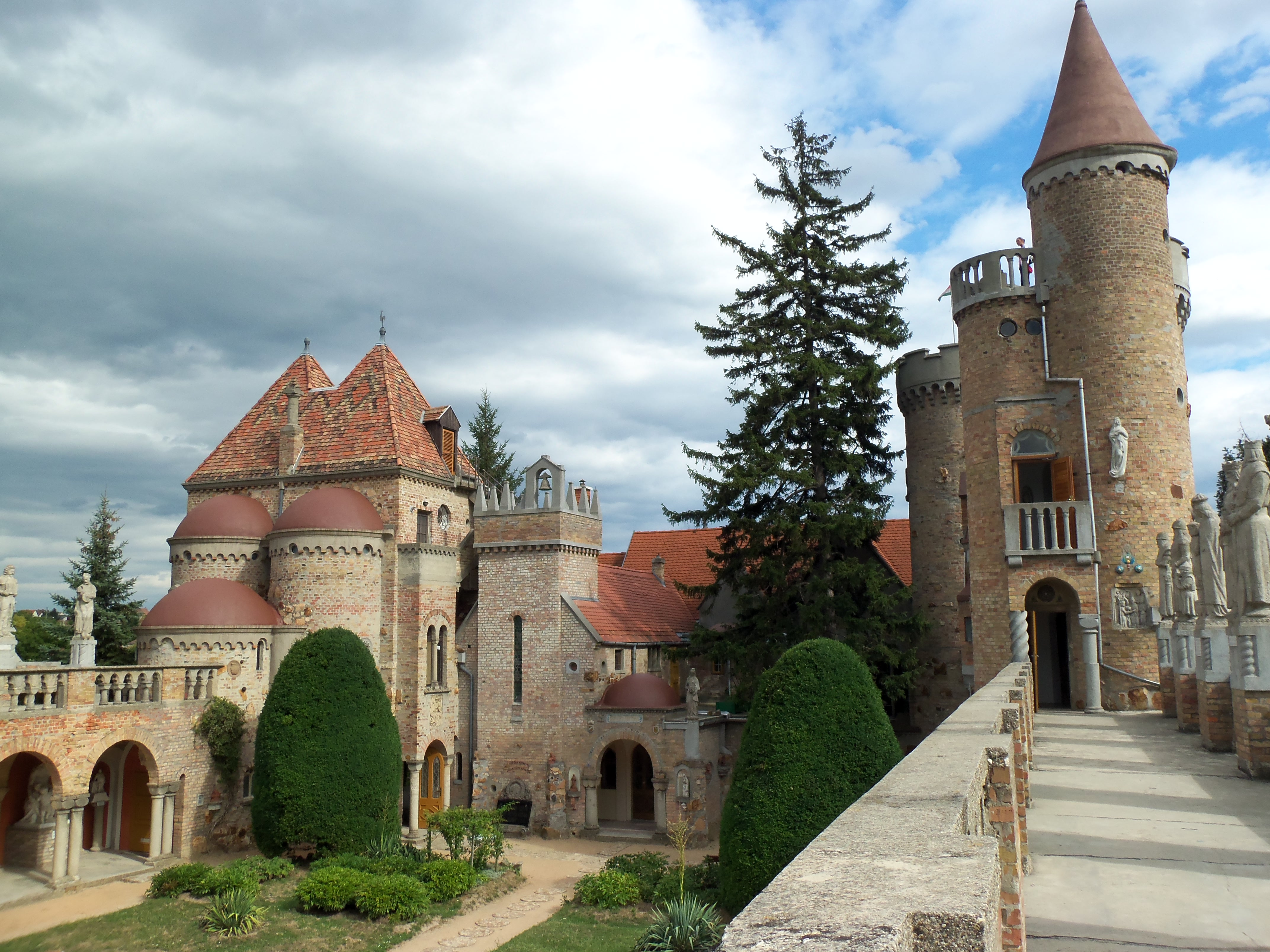 Bory Castle, Székesfehérvár, Hungary